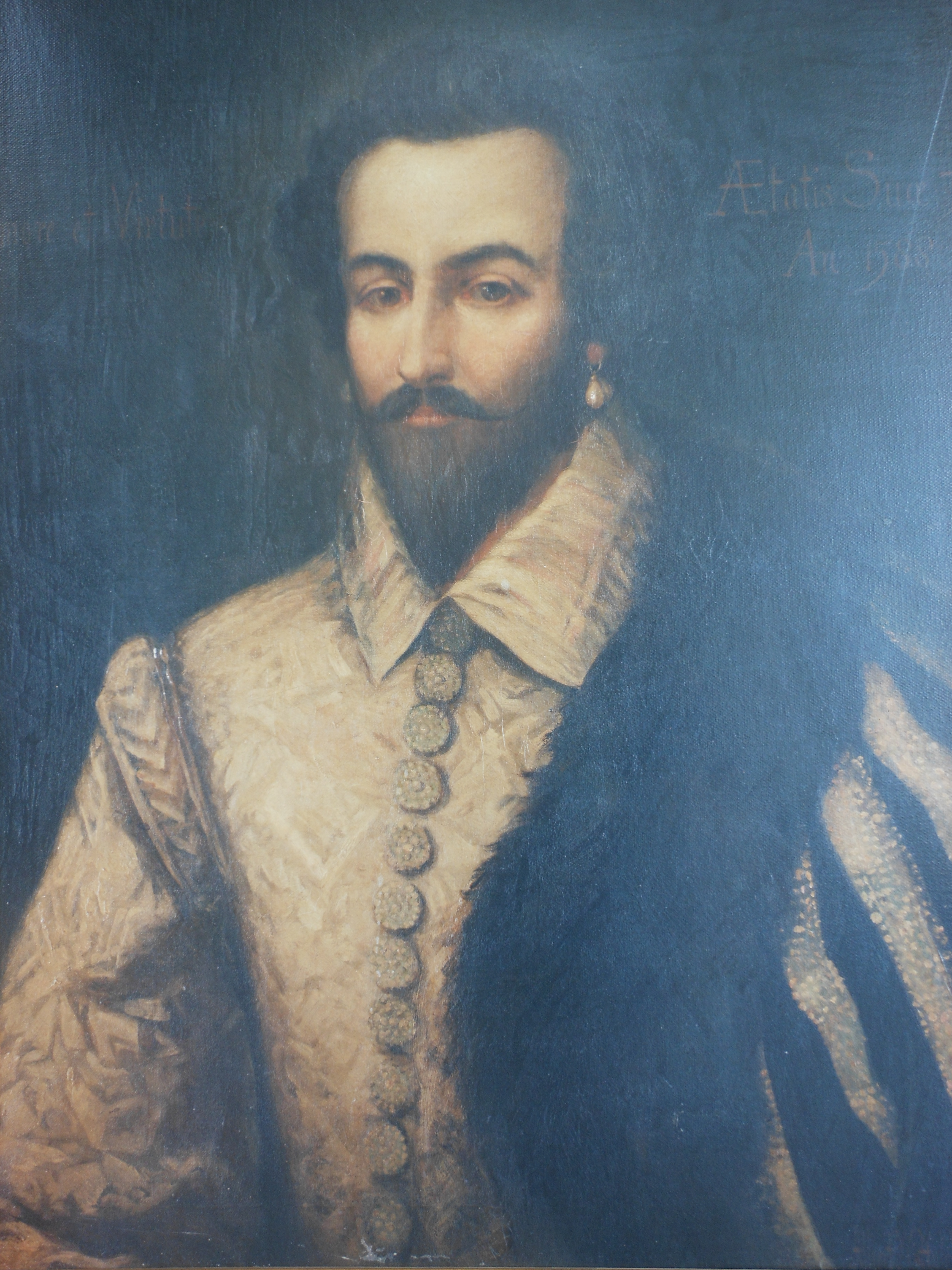 Portrait of Sir Walter Raleigh that hangs at the North Carolina Museum of History